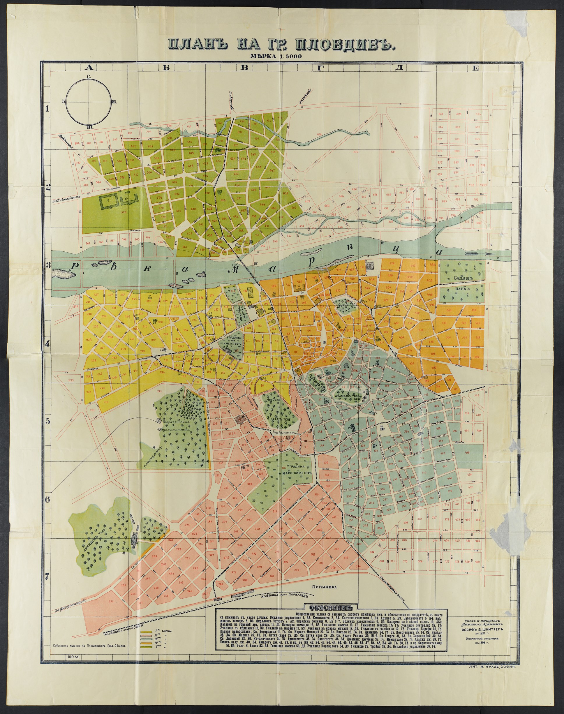 Plan of the City of Plovdiv prepared by the architect Josef Schnitter in scale 1: 5000.